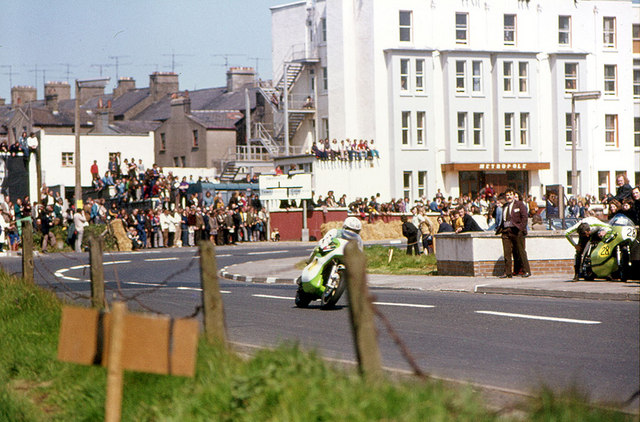 Metropole Corner Portrush Kawasaki racer, Mick Grant passes the Railway Bank at Metropole Corner, before heading up Juniper Hill and back to the start and finish line between Portrush and Portstewart. North West 200 Road Race 17-05-1975